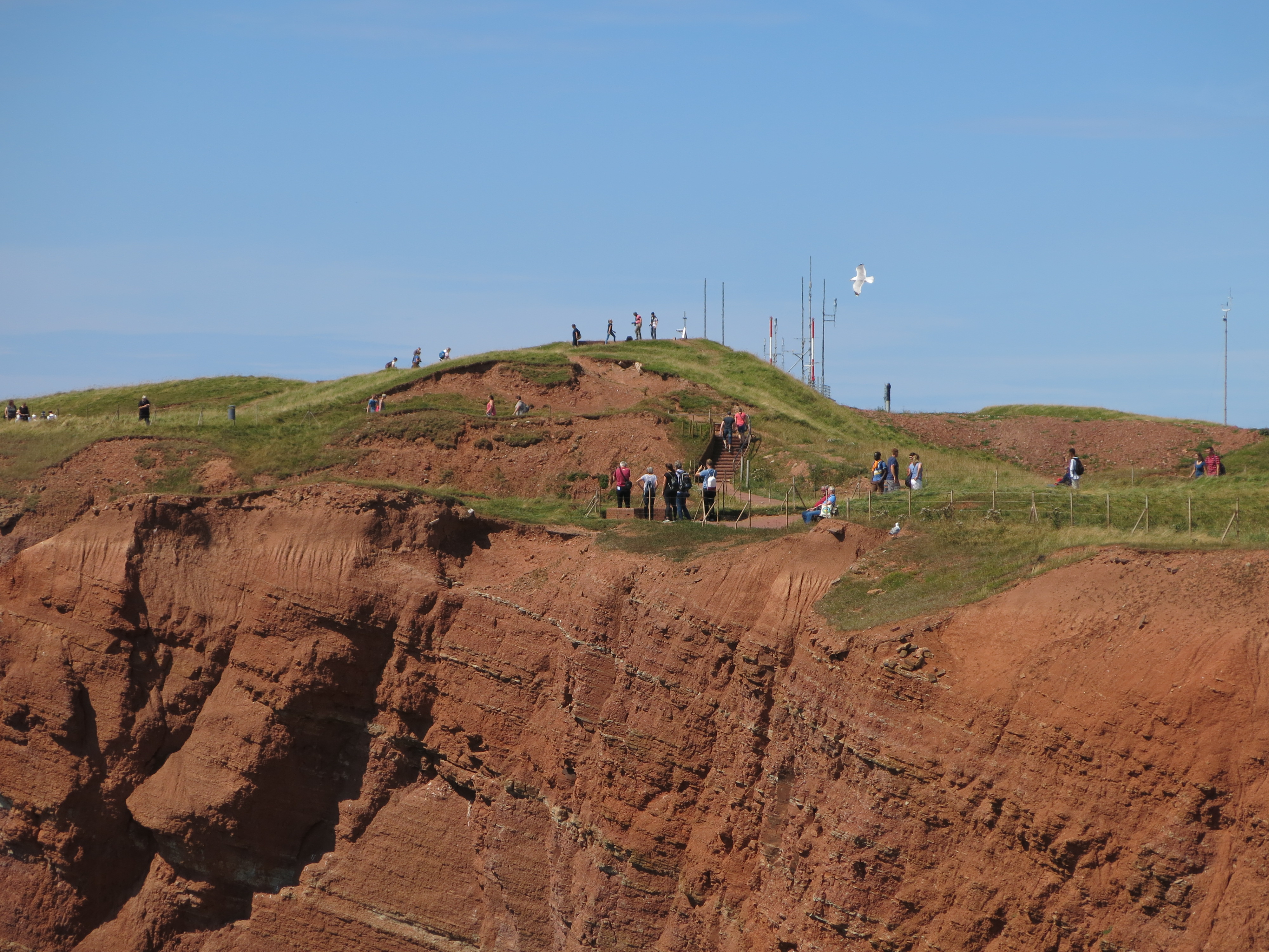 Pinneberg, highest hill on Heligoland